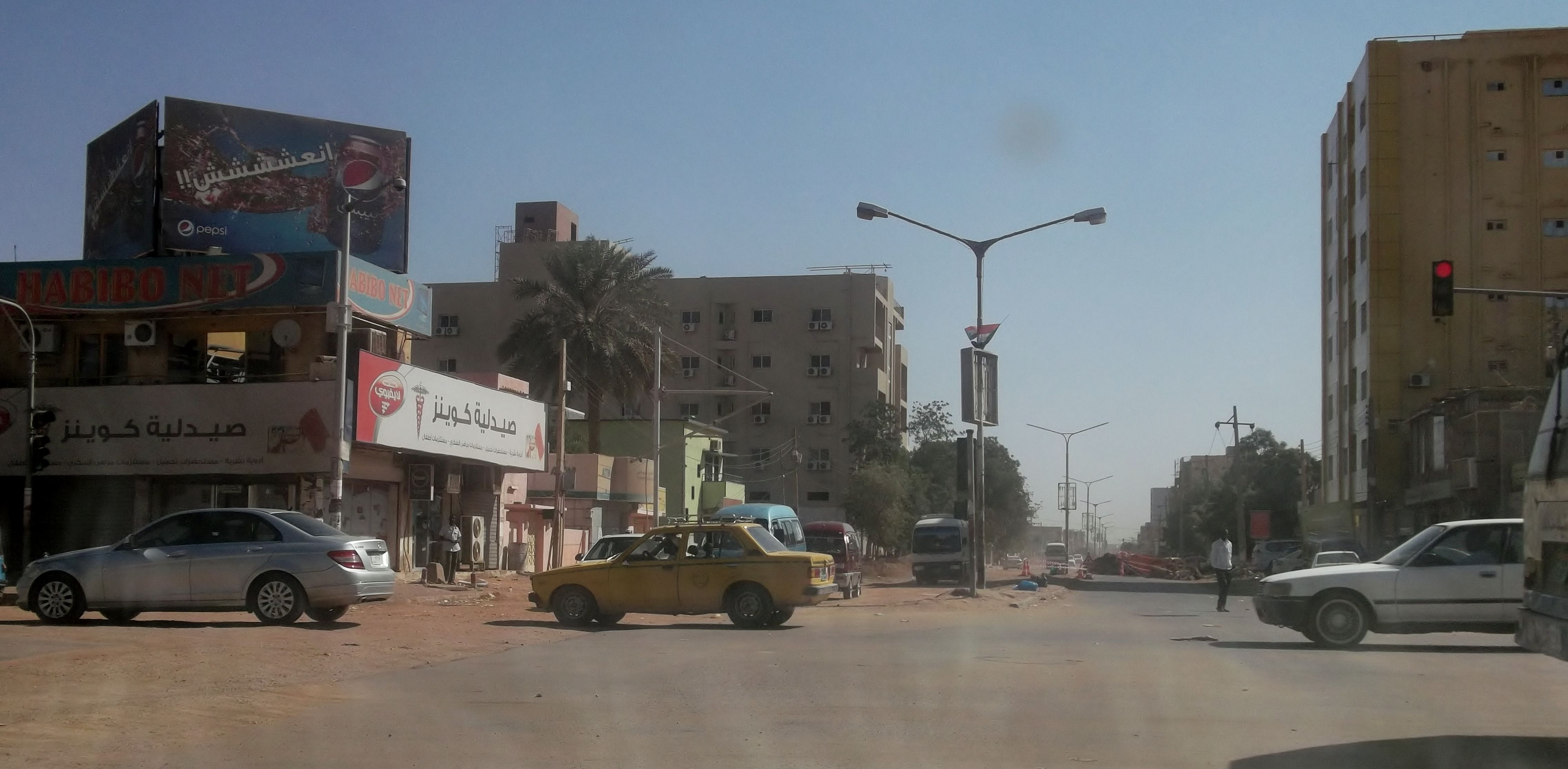 تقاطع المؤسسة - الخرطوم بحري -السودان